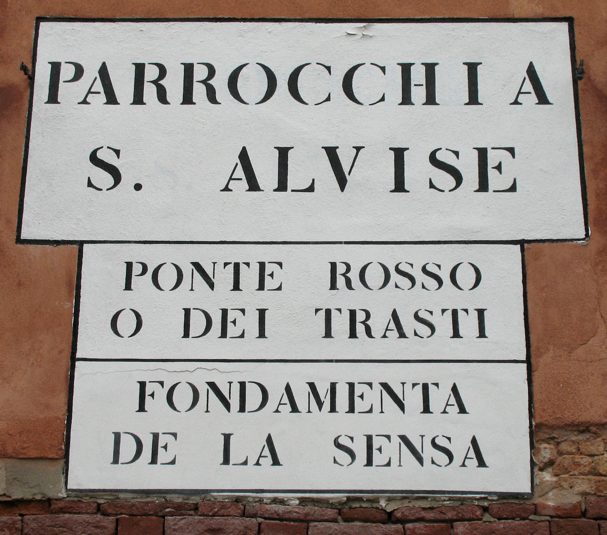 Street sign in Venice, Italy